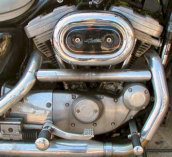 Harley-Davisdon V-twin engine